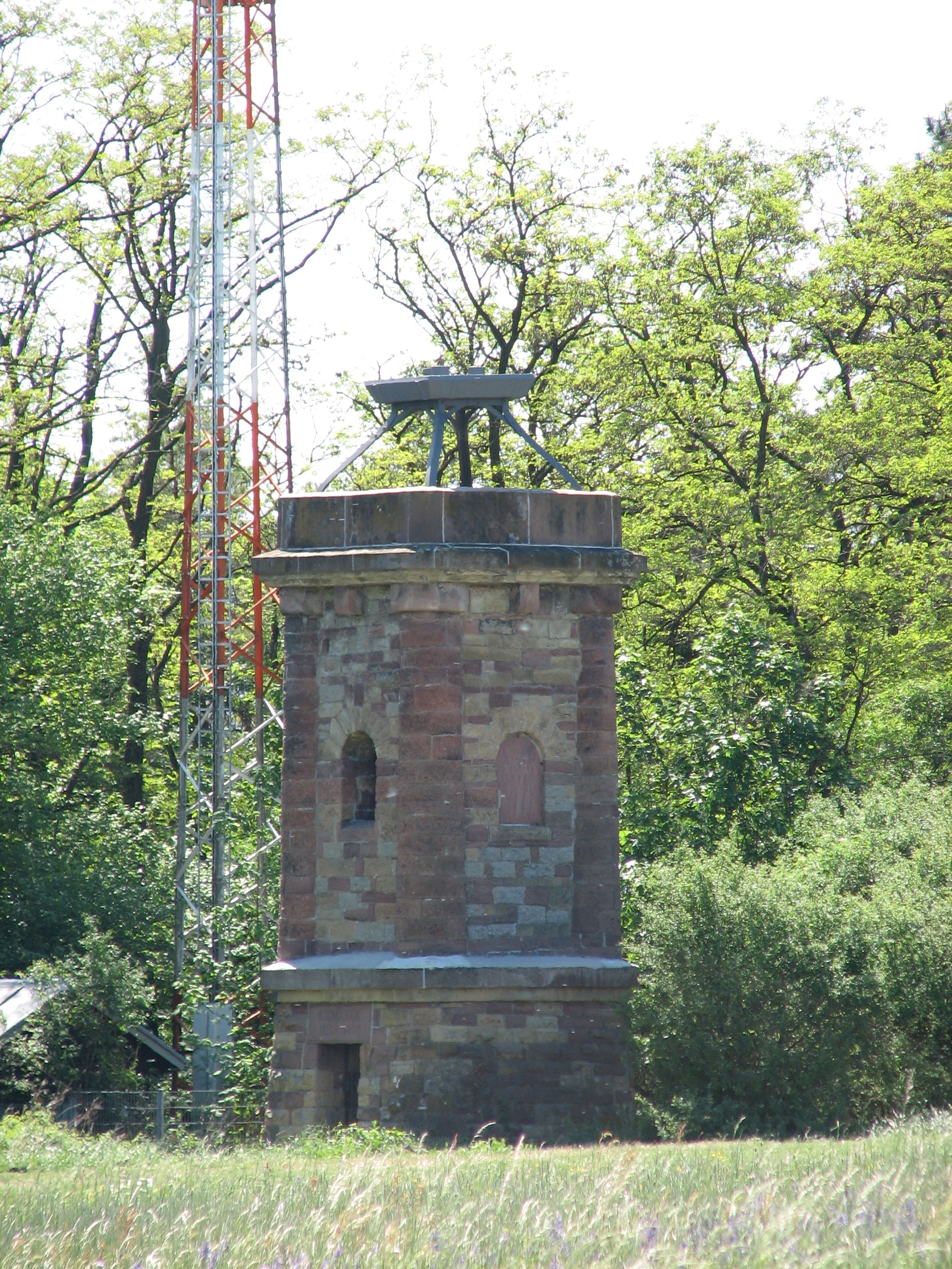 Bismarcktower of Mosbach